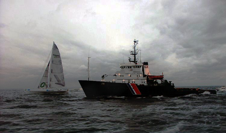 The trimaran Géronimo wins the Trophée Jules Verne. Next to her is the tugboat Abeille Flandre.